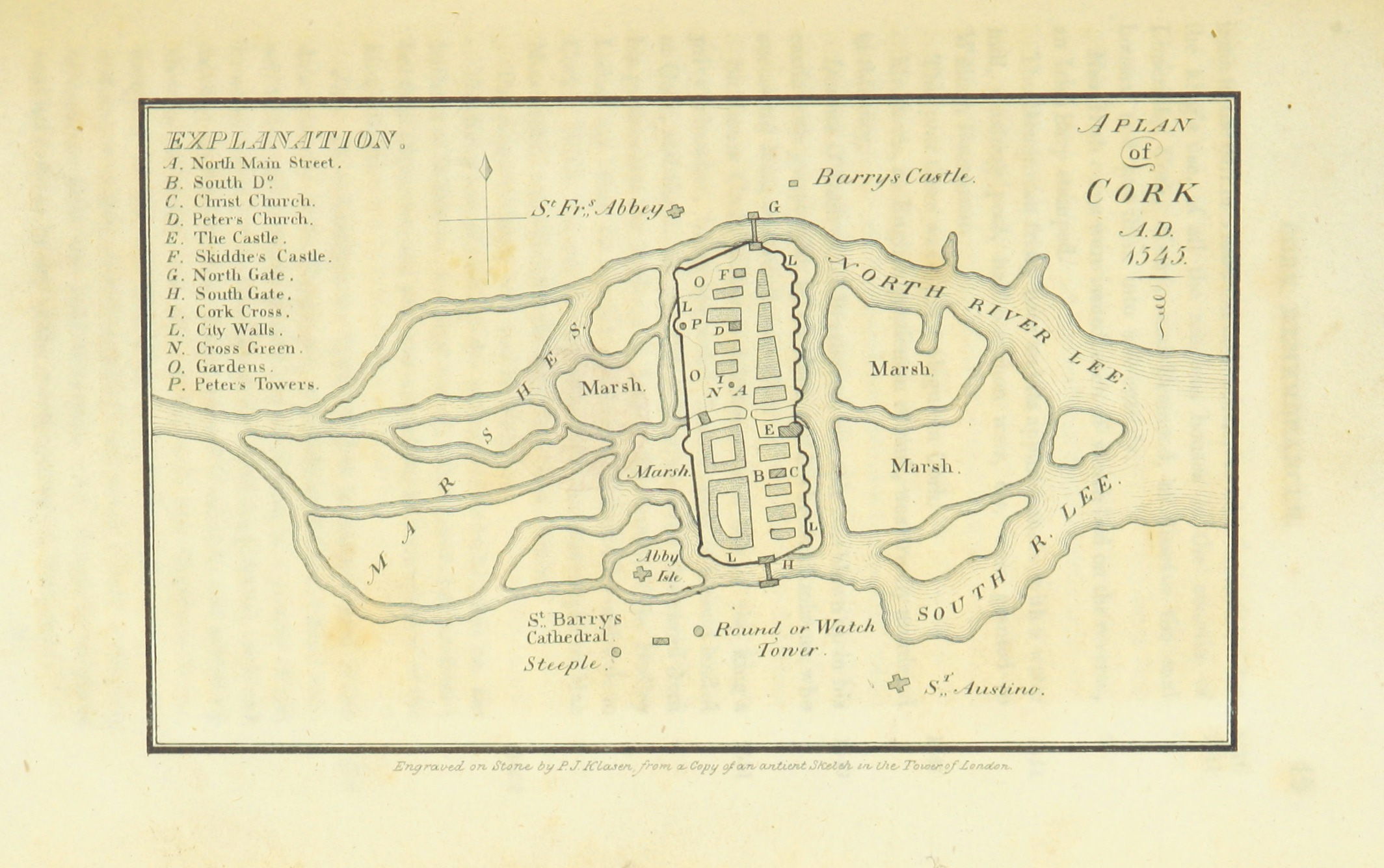 View this map on the BL Georeferencer service. Image taken from: Title: "The County and City of Cork Remembrancer; or, Annals of the county and city of Cork, etc" Author: TUCKEY, Francis H. Shelfmark: "British Library HMNTS 010390.g.94." Page: 171 Place of Publishing: Cork Date of Publishing: 1837 Publisher: Osborne Savage & Son. Issuance: monographic Identifier: 003686719 Explore: Find this item in the British Library catalogue, 'Explore'. Open the page in the British Library's itemViewer (page image 171) Download the PDF for this book Image found on book scan 171 (NB not a pagenumber)Download the OCR-derived text for this volume: (plain text) or (json) Click here to see all the illustrations in this book and click here to browse other illustrations published in books in the same year. Order a higher quality version from here.